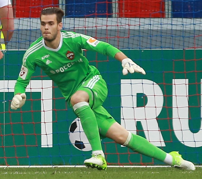 Ilya Pomazun with PFC CSKA Moscow in a game against FC Rubin Kazan.